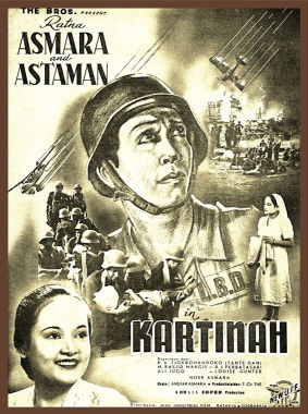 This is the film poster for the 1940 film Kartinah.